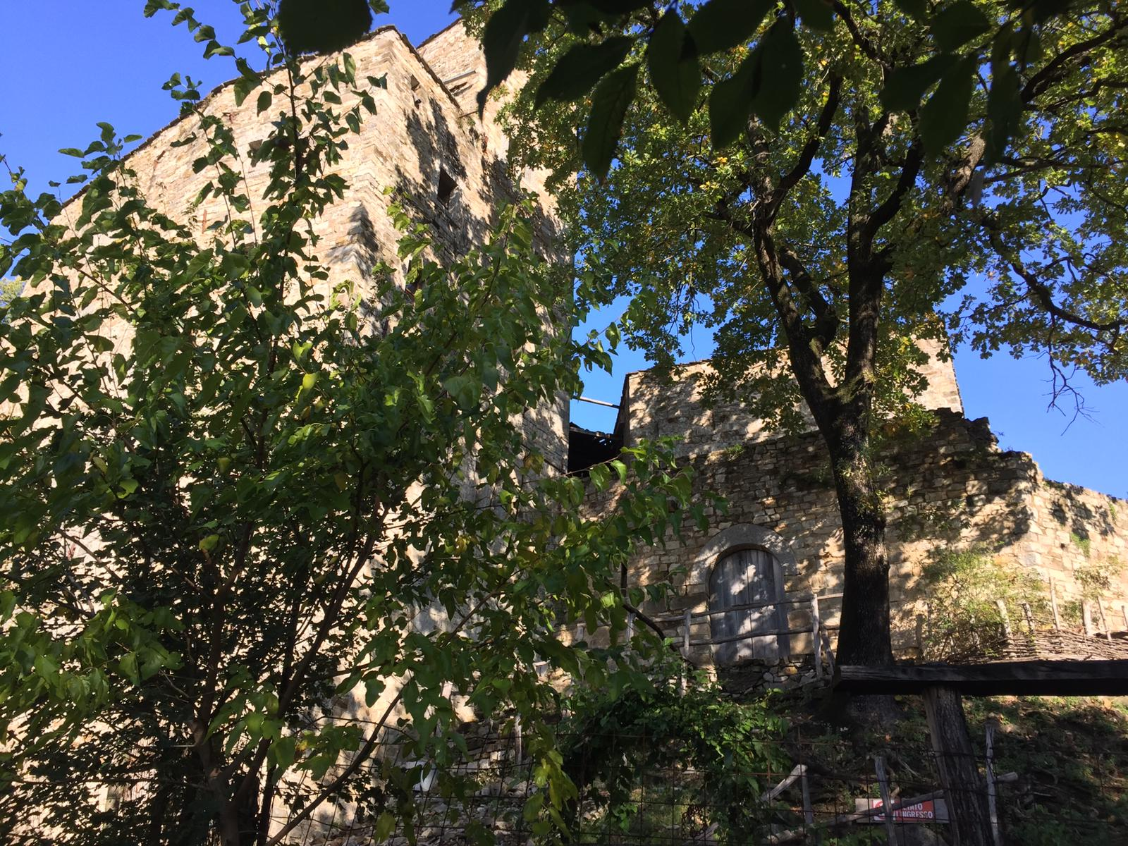 Cucagna